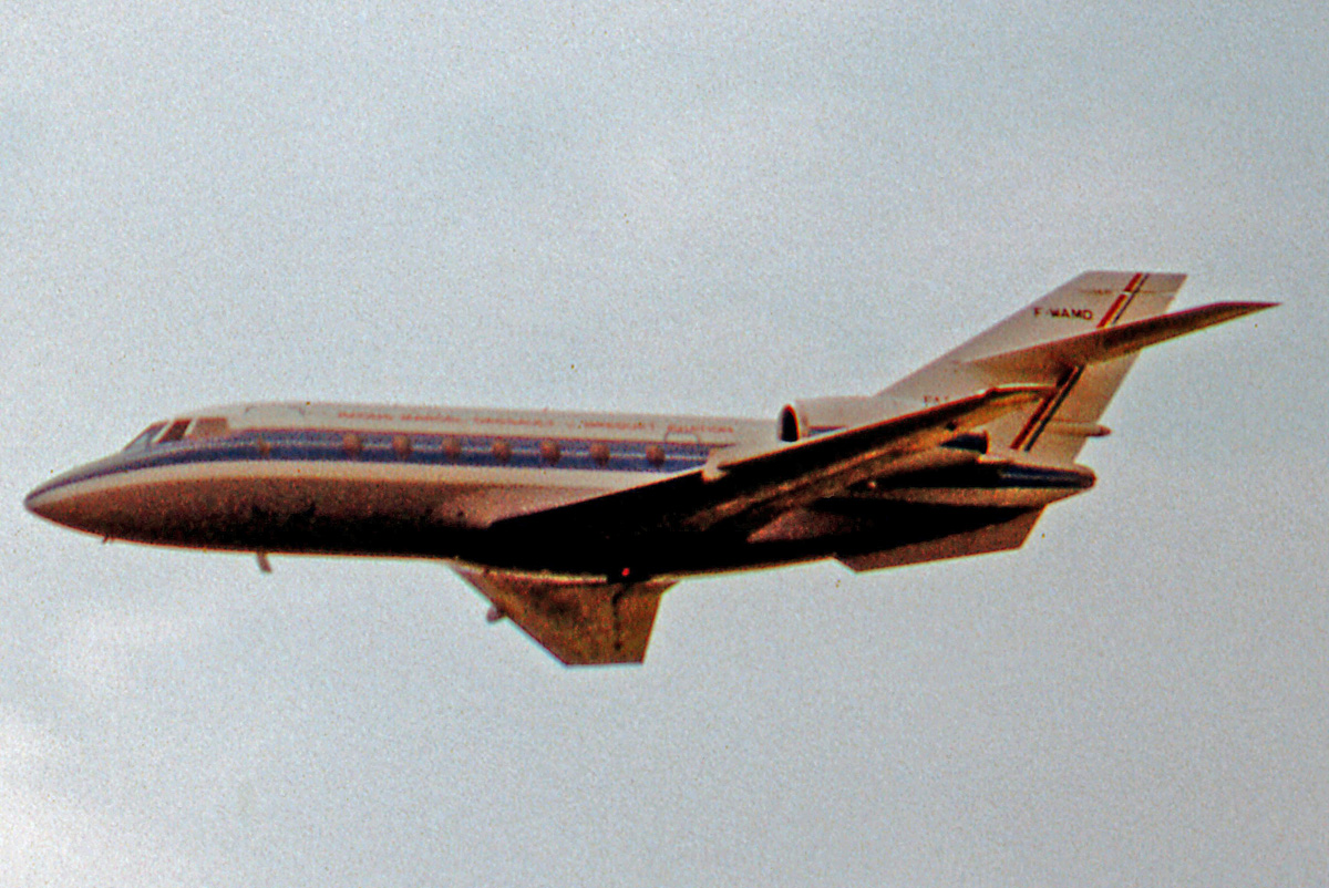 Dassault Falcon 30 30-seat prototype F-WAMD at the 1973 Paris Air Show